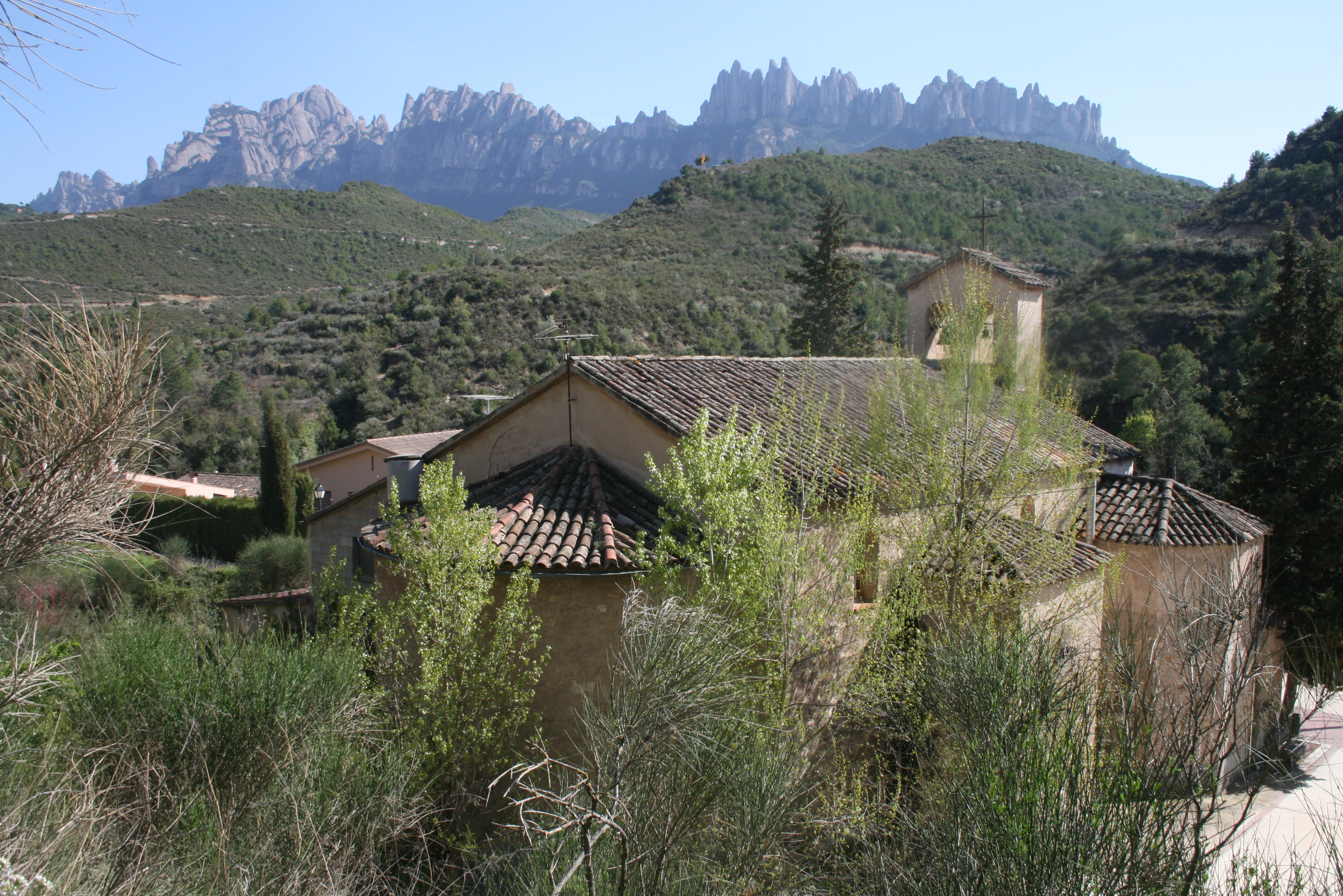 Marganell; Bages (Catalonia): església parroquial de Sant Esteve